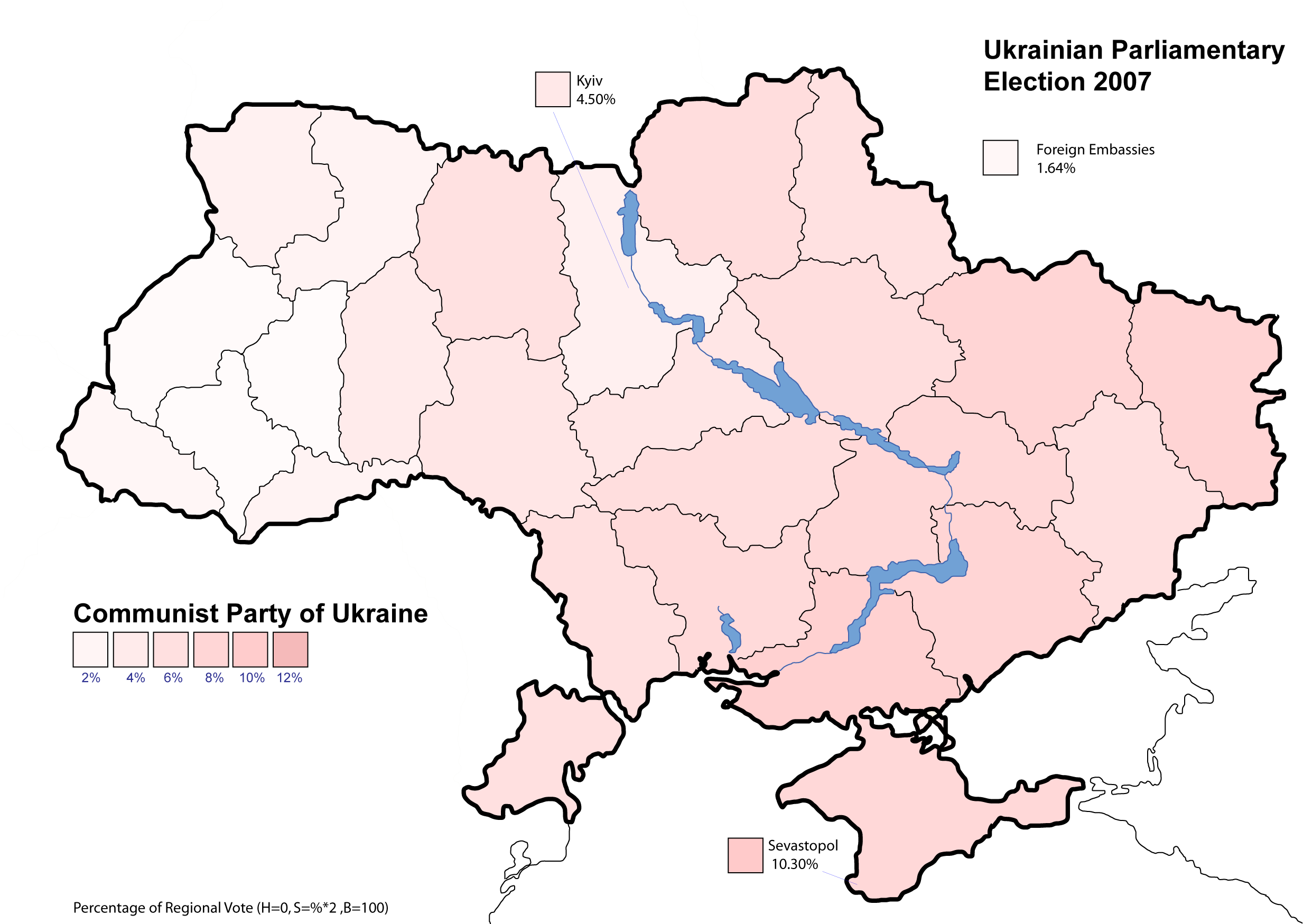 Communist Party of Ukraine results (5.39%): maps showing the top six parties support - percentage per region a graphical representation of the 2007 Ukrainian Parliamentary Election. All data is derived from the published official results provided by the Ukrainian Authority (See links and data tables below)